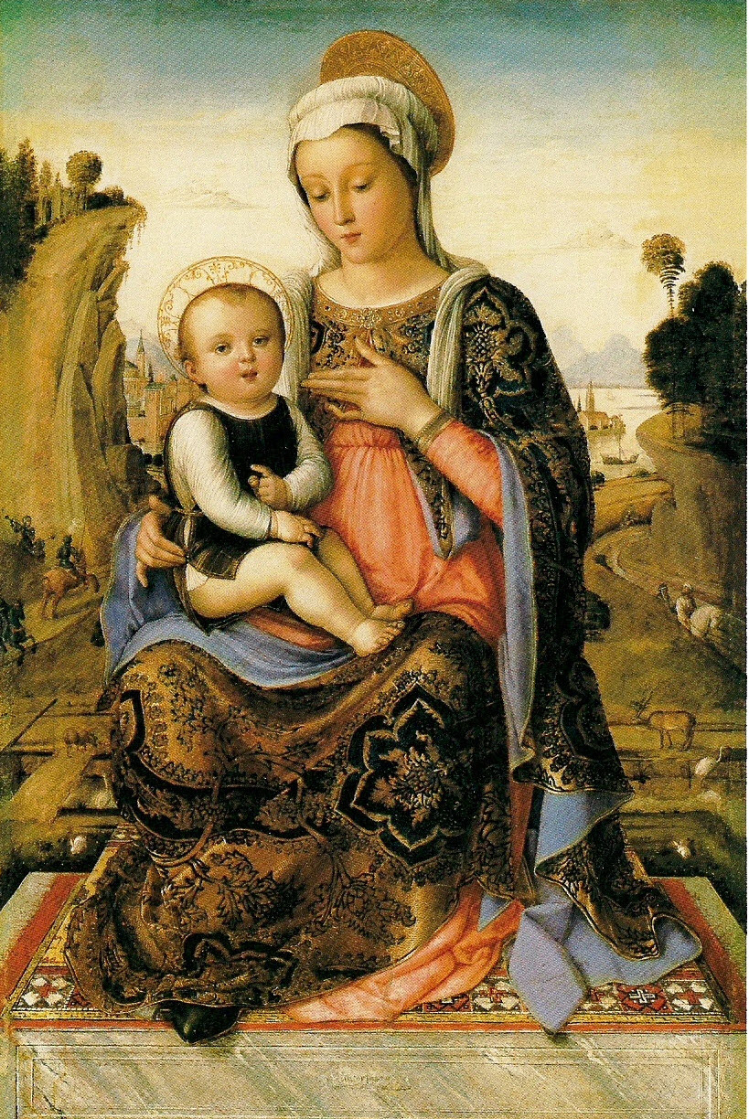 Lazzaro Bastiani, Madonna and Child, ca. 1470s, Hermitage Museum, St. Petersburg Painter: Lazzaro Bastiani (ca. 1425-1512) Date: ca. 1470s (museum says 1480s-90s) Original location: Collection: The State Hermitage Museum, St. Petersburg Medium and size: oil on panel, transferred to canvas 58 x 38 cm (approx 23 x 15 in) Notes: small cross motif on carpet